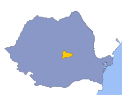 The Burzenland ethnographc region in southeastern Transylvania, Romania.